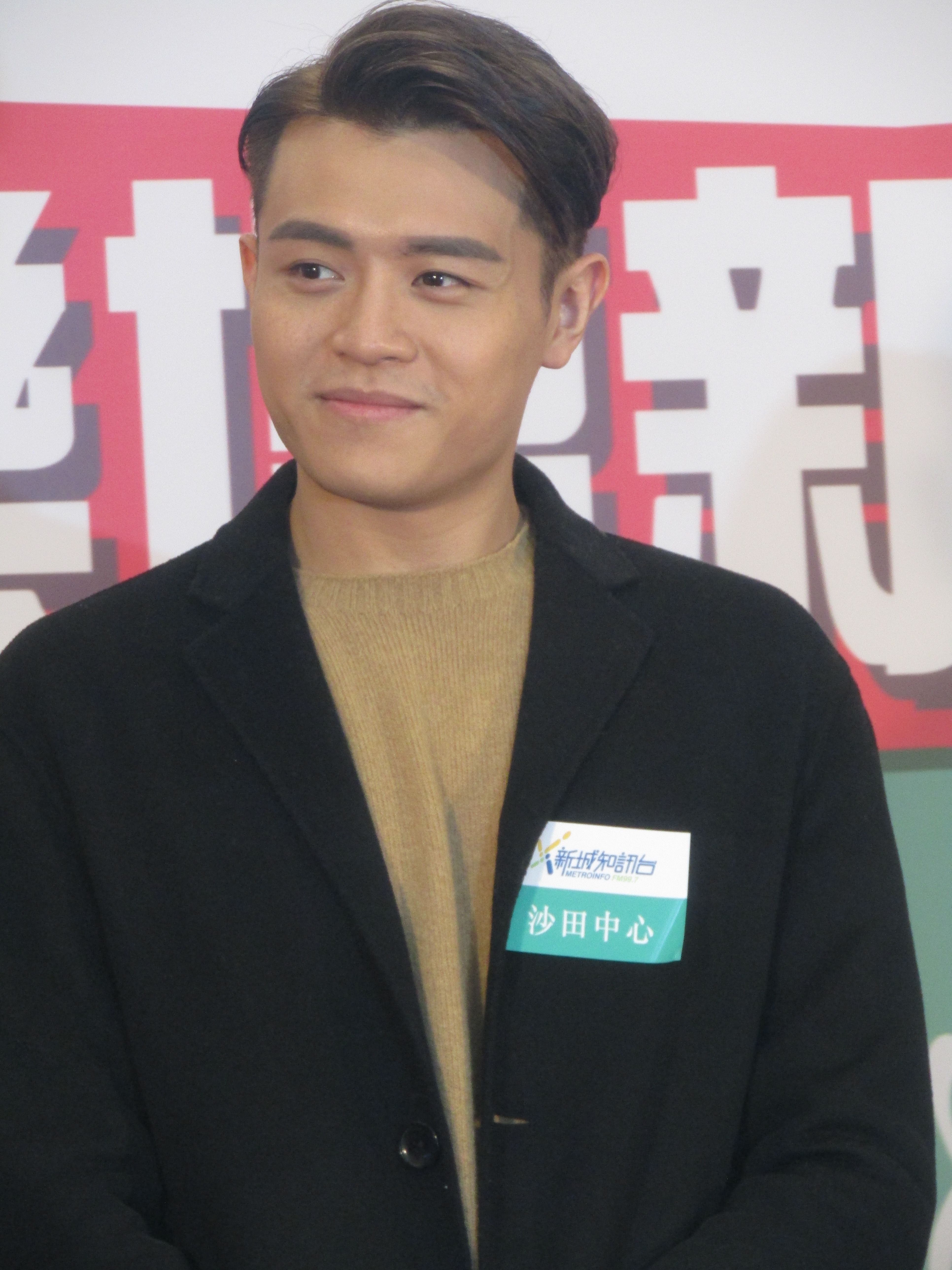 Simon On is in Shatin Centre